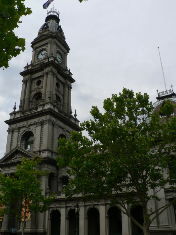 Collingwood Town Hall from Hoddle Street